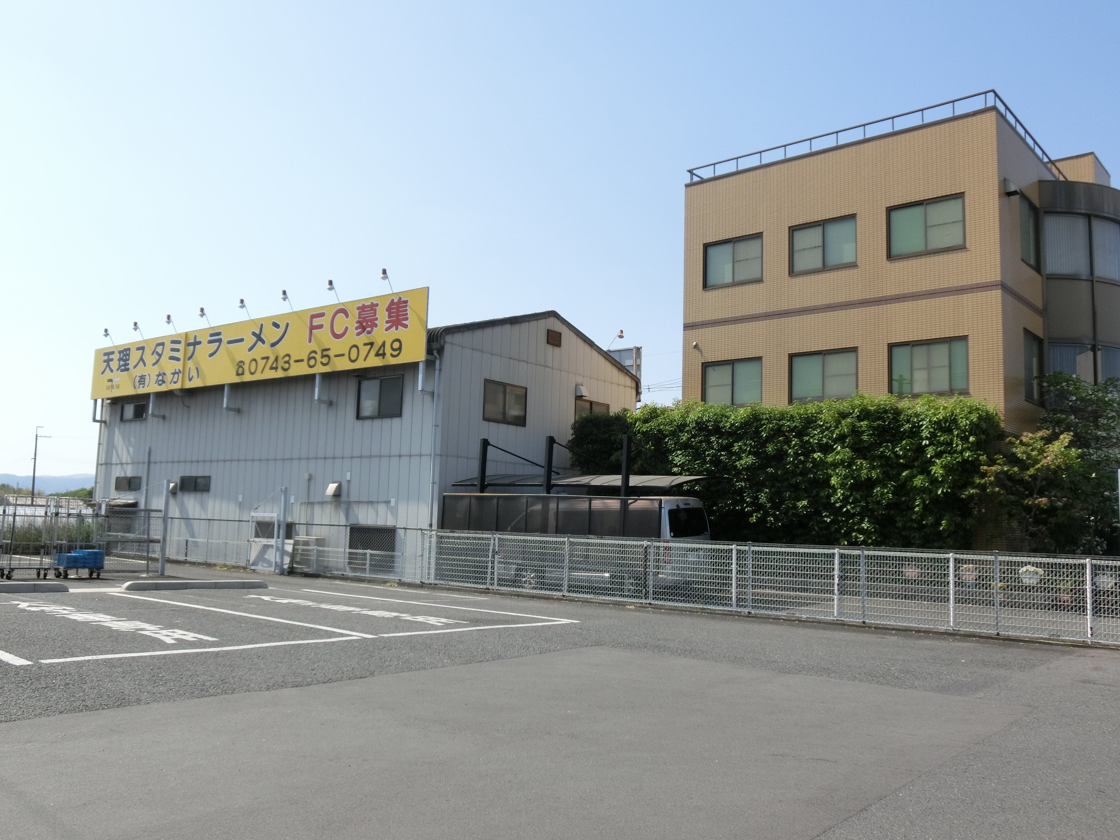 Nakai Head Office